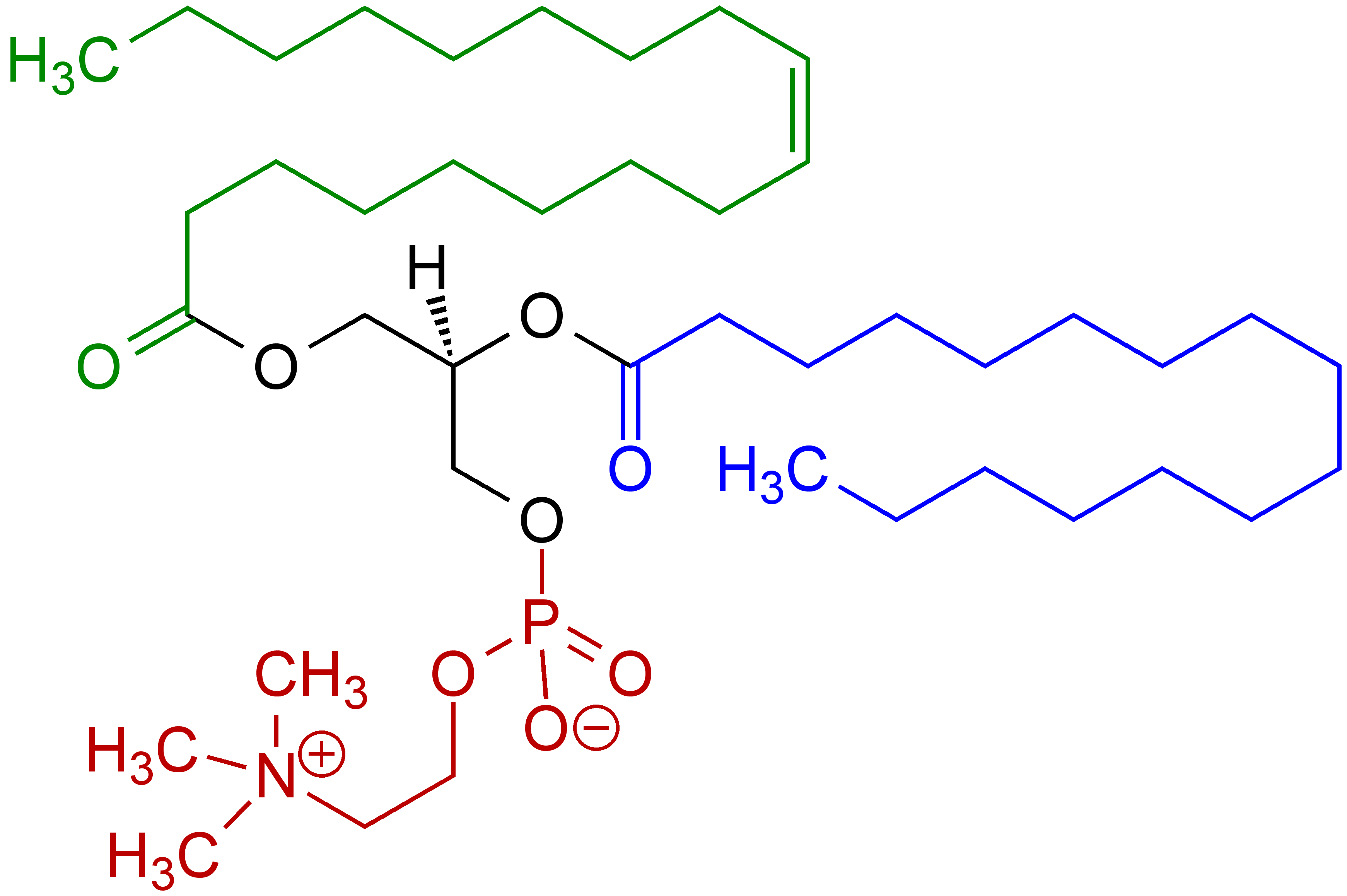 (R)-1-Oleoyl-2-almitoyl-phosphatidylcholine_Structural_Formulae